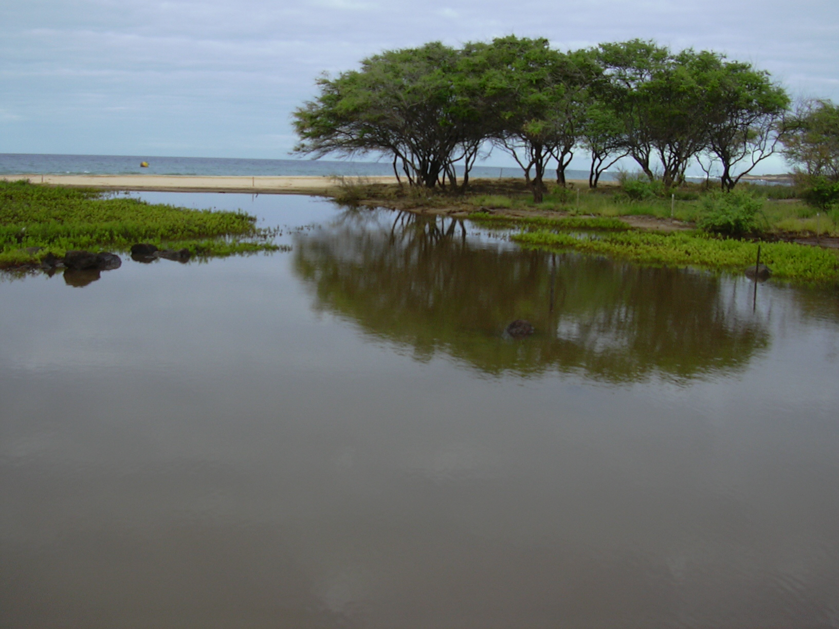 Batis maritima (habit in wetland). Location: Kahoolawe, Honokanaia